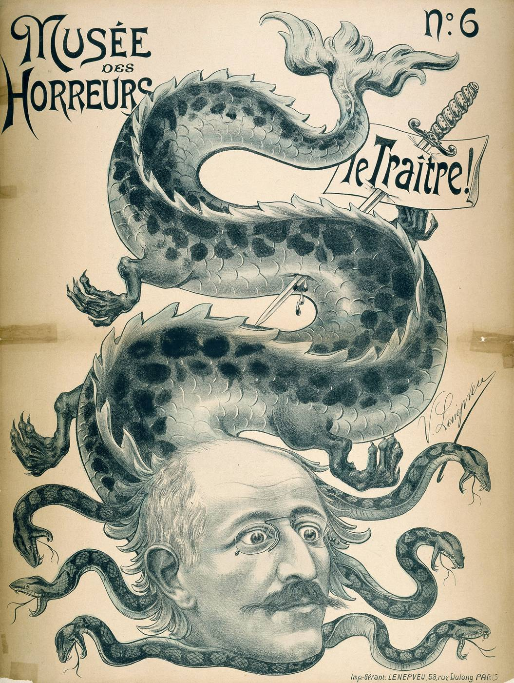 A caricature of Alfred Dreyfus "the traitor" in the Musée des Horreurs series, in response to the Dreyfus Affair